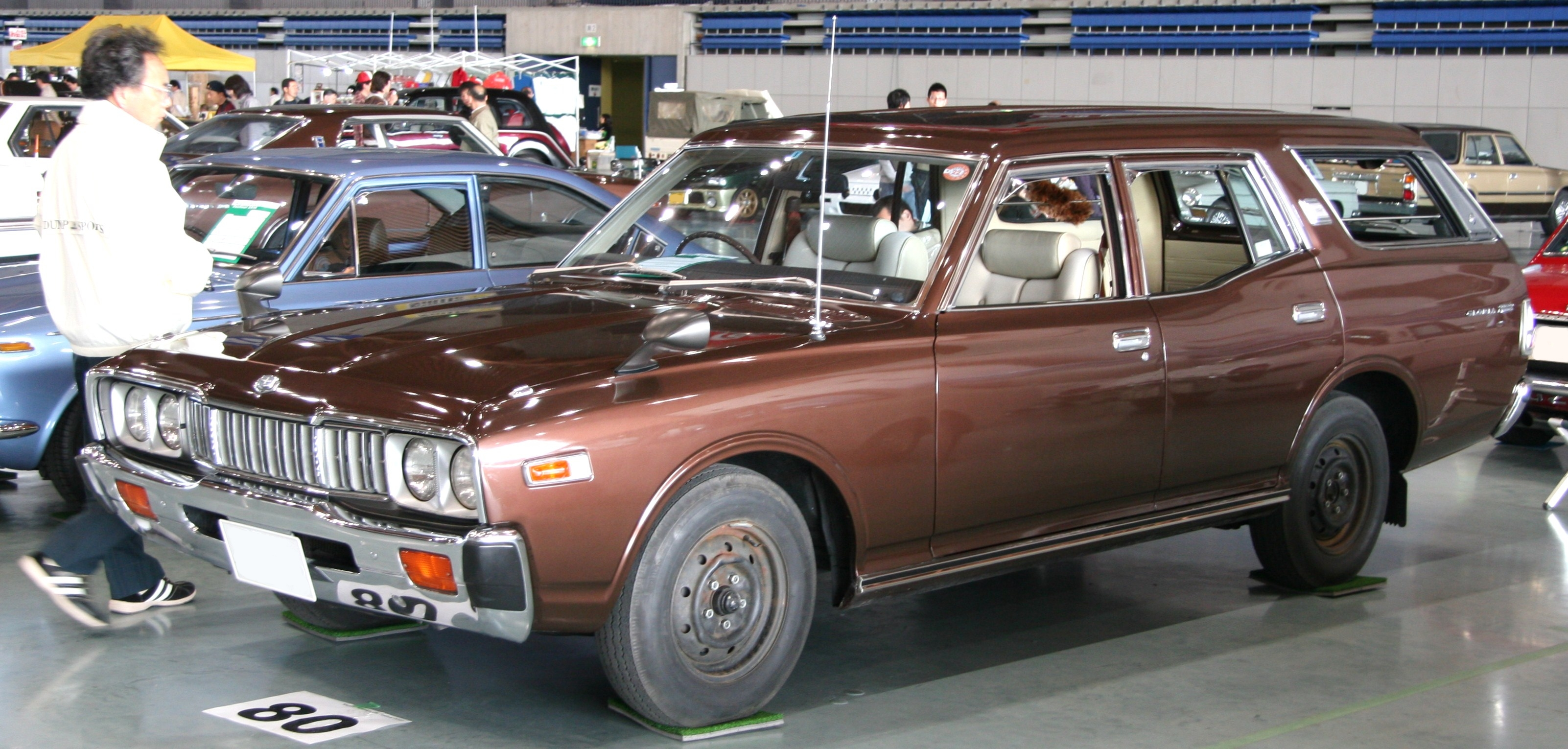 Nissan Gloria